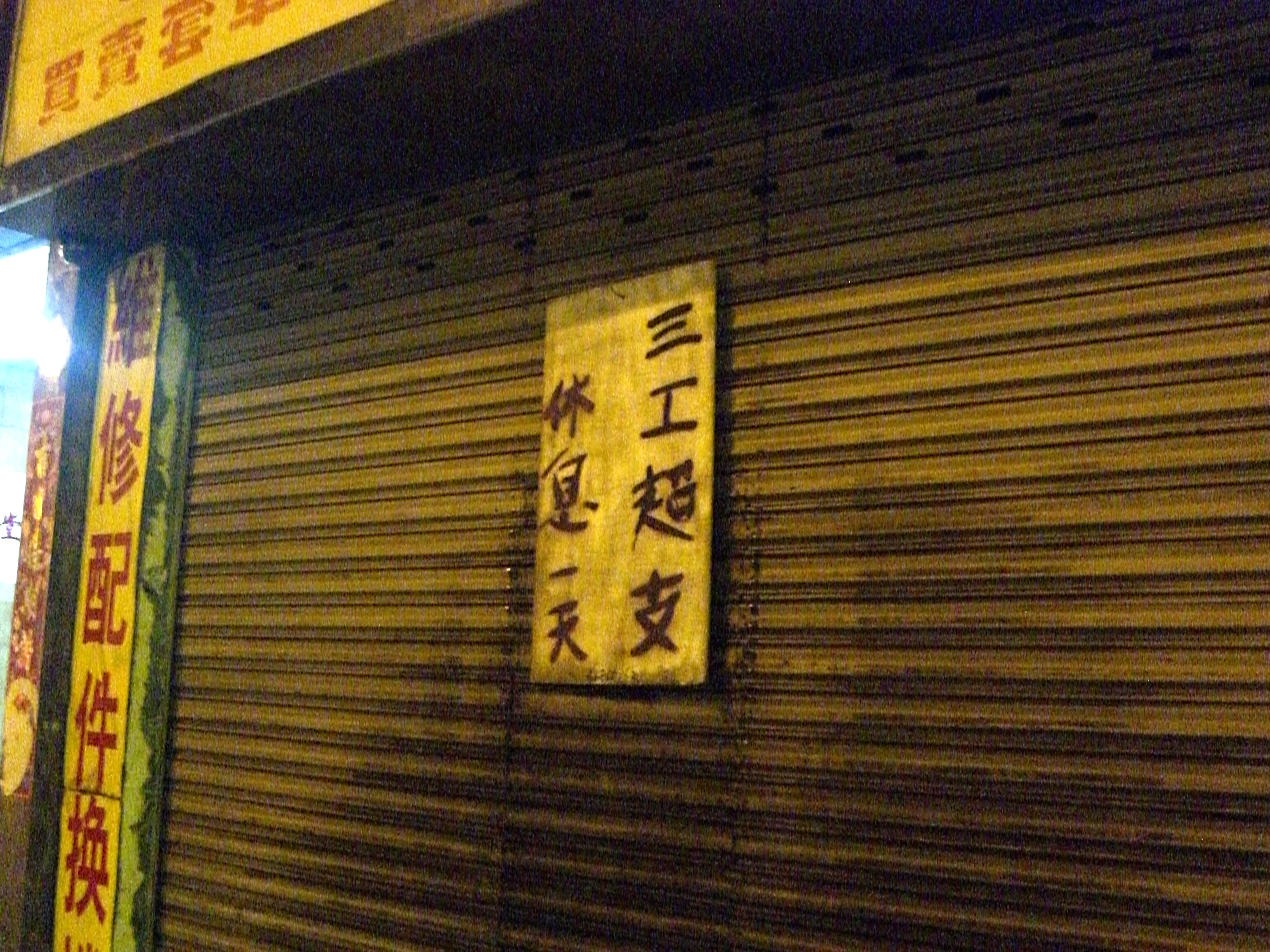 Photo of a shuttered storefront in Macao. The sign reads: "Triple time has exceeded budget. Store is closed today." Sign refers to Macanese law's stipulation on holiday pay arrangements.